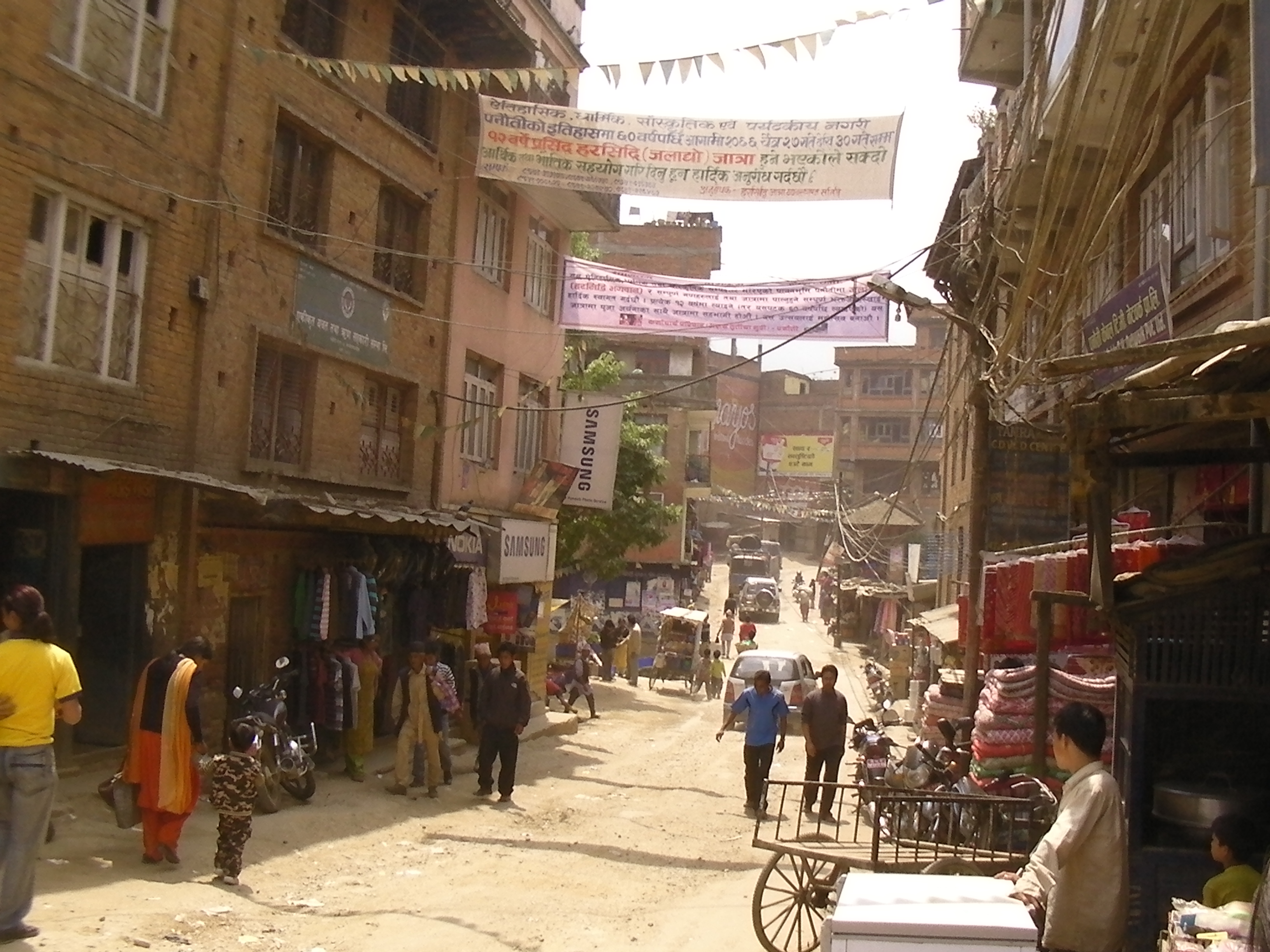 Looking south along a street in Panauti, Nepal just south of the bus station area. Altitude 1440 meters.